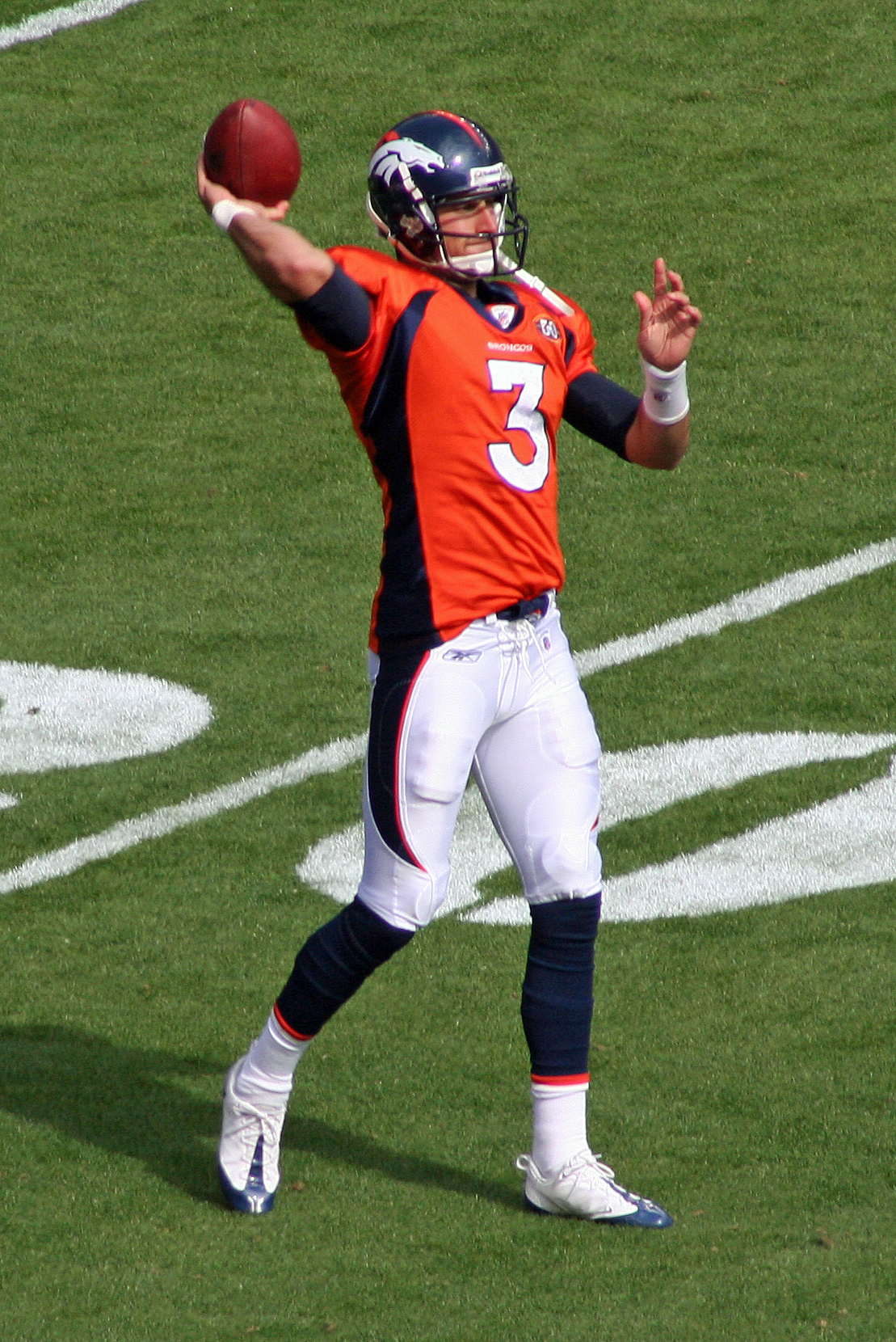 Tom Brandstater a player on the Denver Broncos American football team.